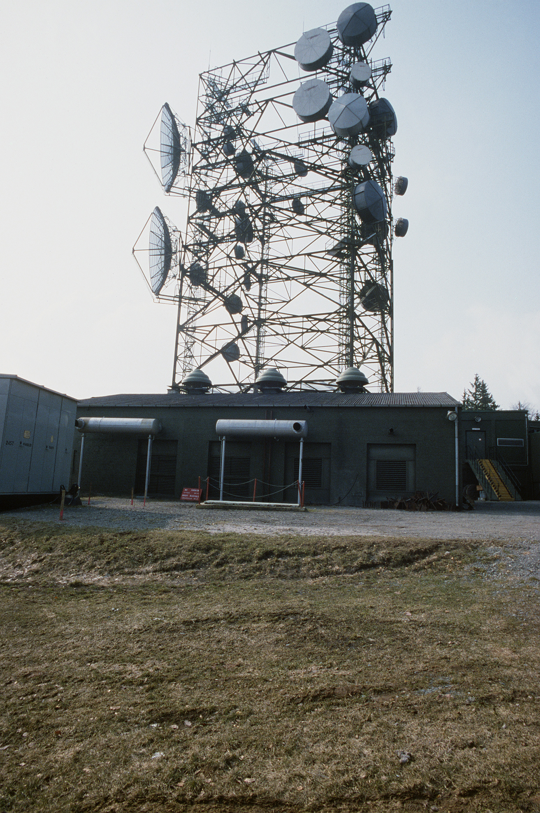 A microwave antenna at the Defense Communications Station operated by the 298th Signal Company at Donnersberg, West Germany.